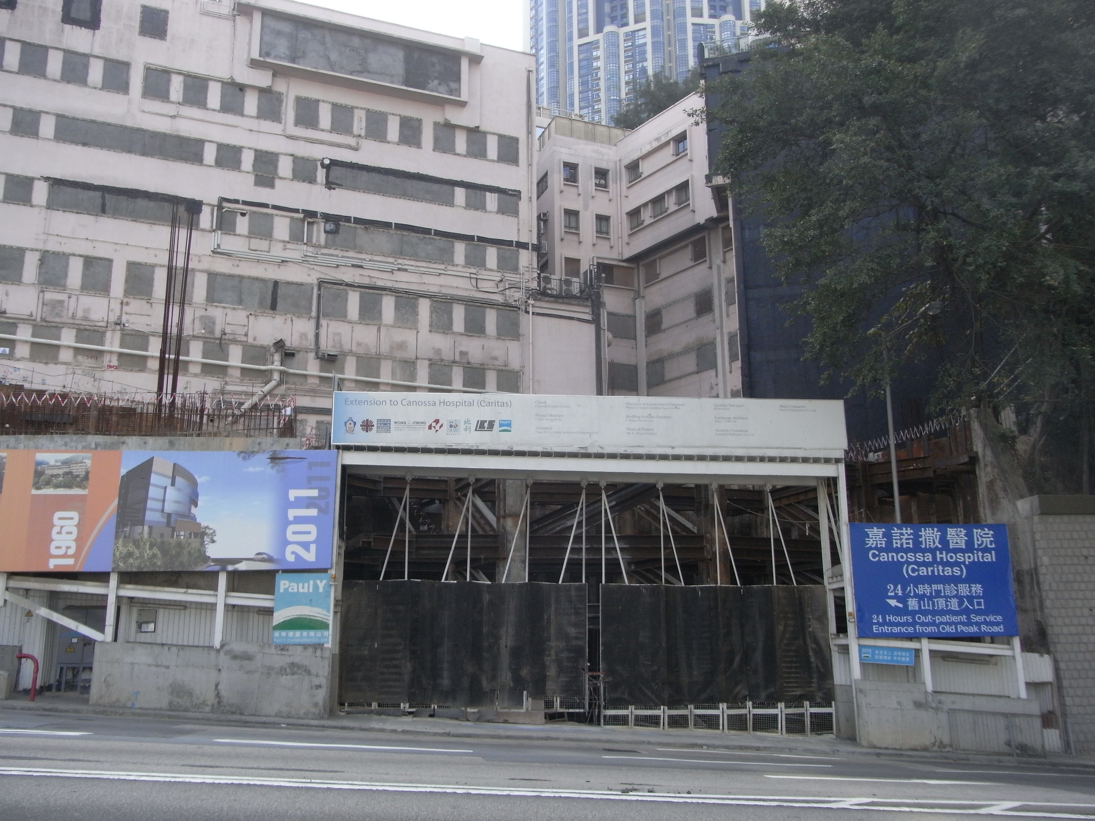 香港島 半山區